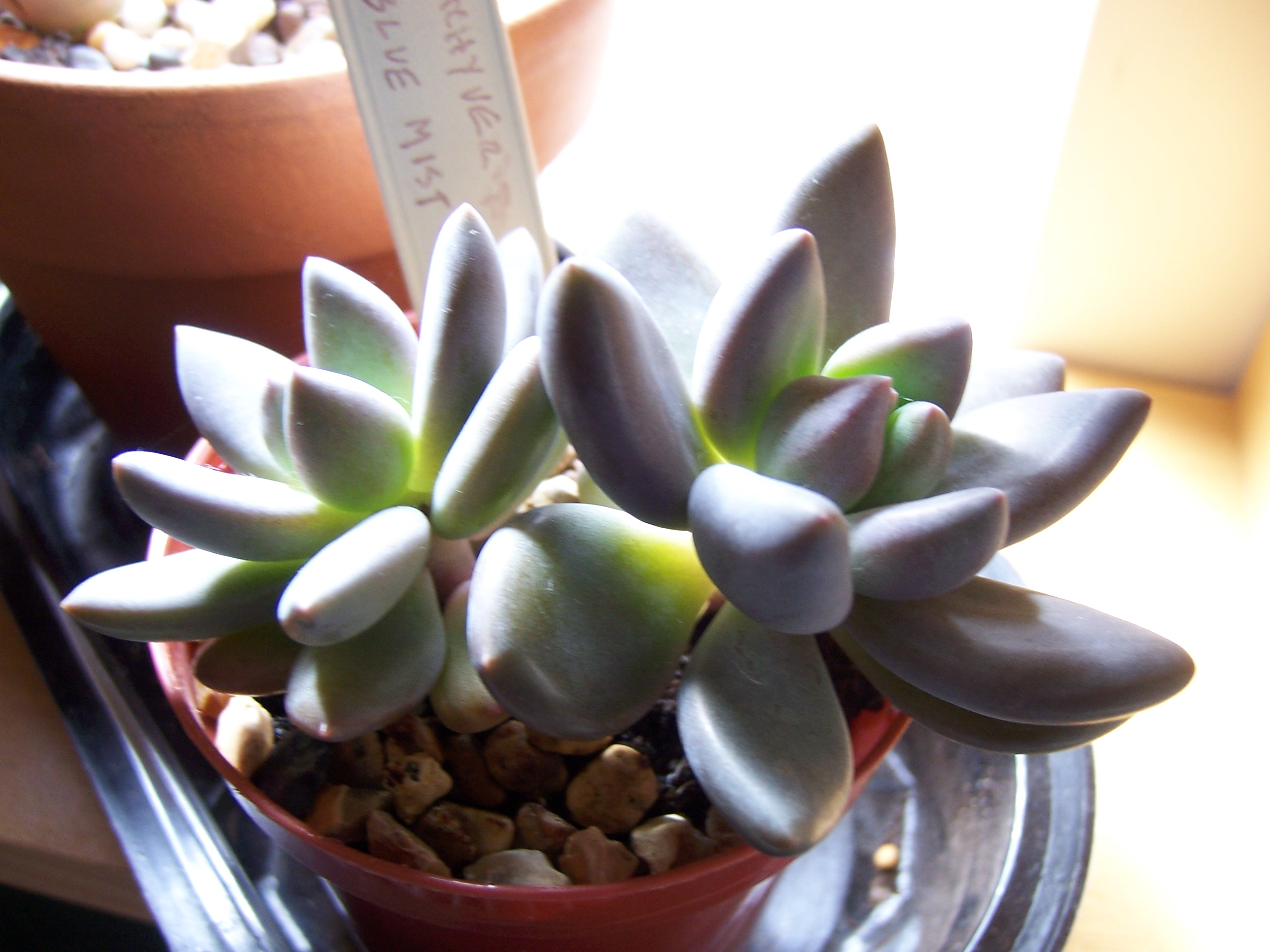 Pachyveria Blue Mist